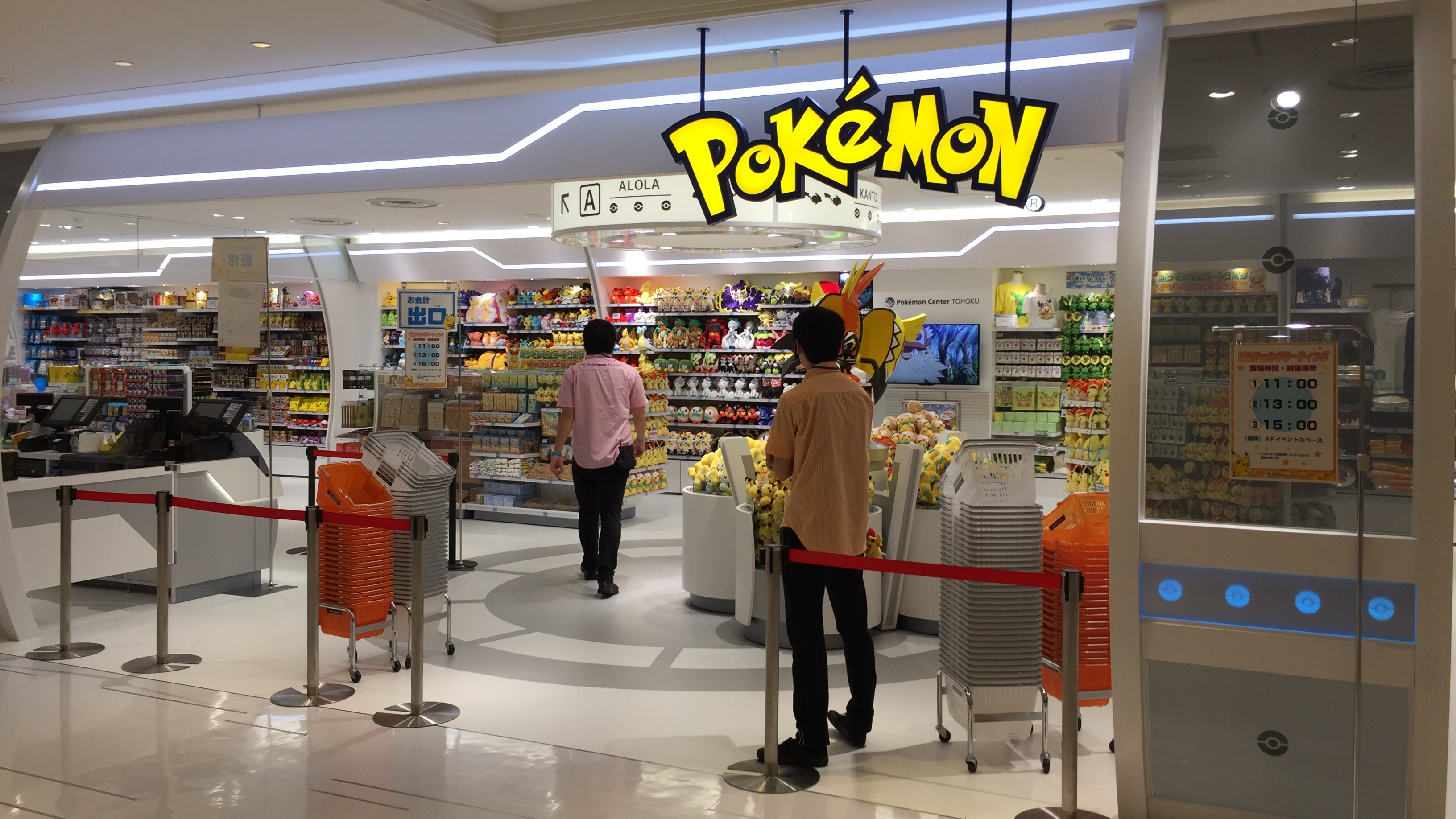 The "Pokemon Center Tohoku" inside the Sendai Parco department store in Sendai, Japan